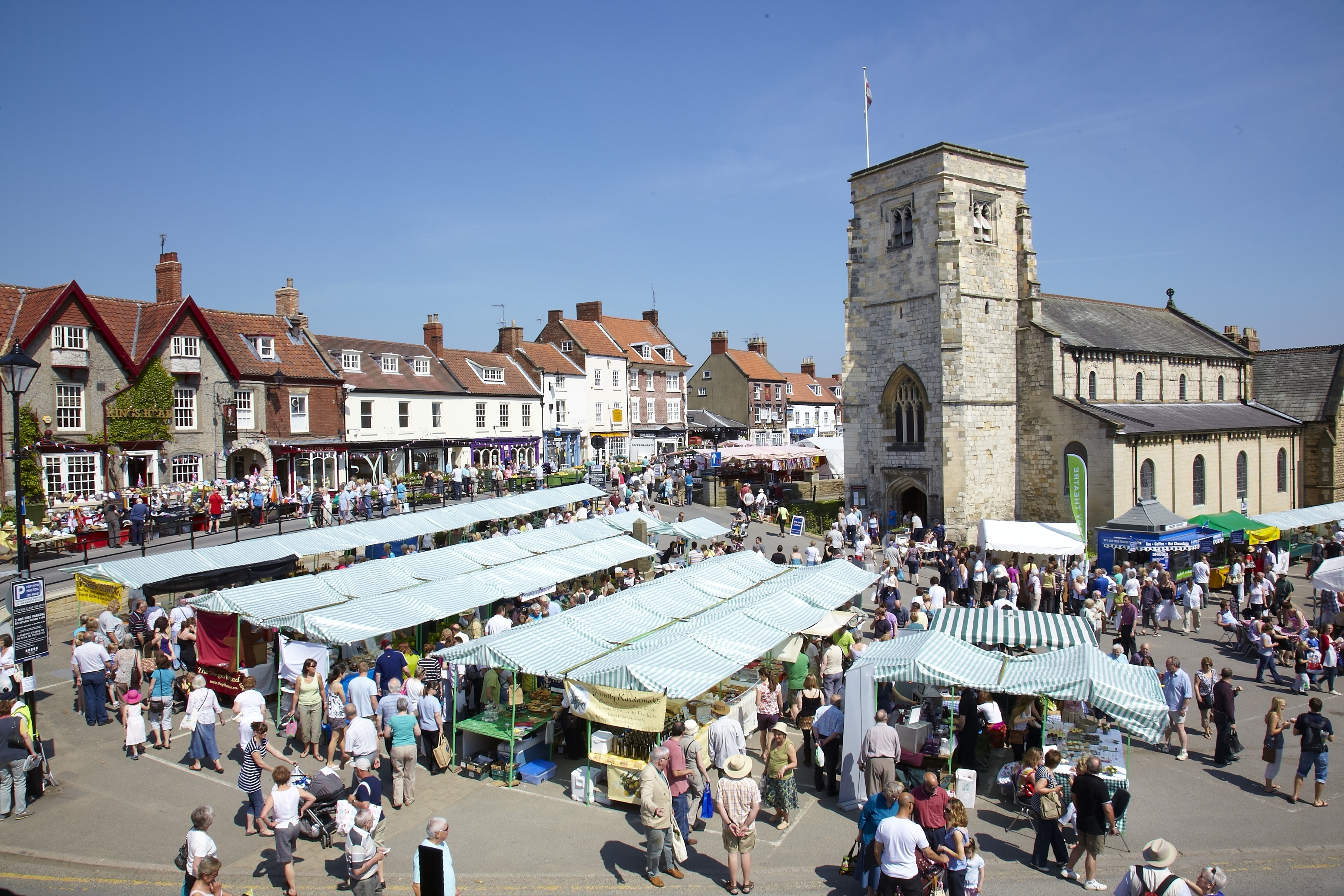 Malton Food Stalls